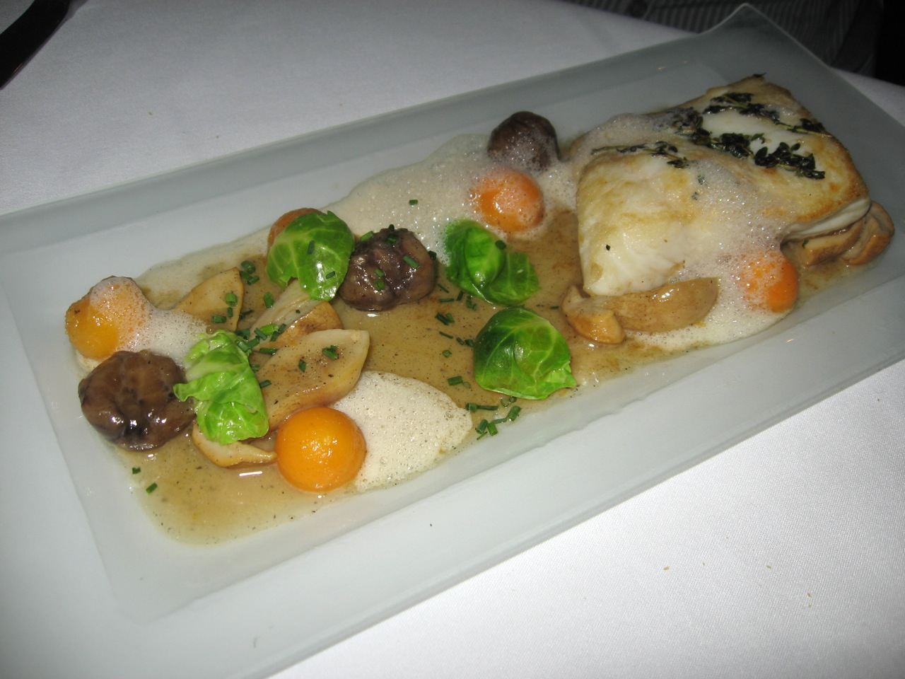 Beurre noisette is a warm sauce often used to accompany many foods, such as fish and vegetables, as in this case: halibut with porcini mushrooms, butternut squash, chestnuts and brussels sprouts. Beurre noisette is made from unsalted butter which is melted over low heat and allowed to separate into butterfat and milk solids. The milk solids naturally sink to the bottom of the pan and, if left over gentle heat, will begin to brown.